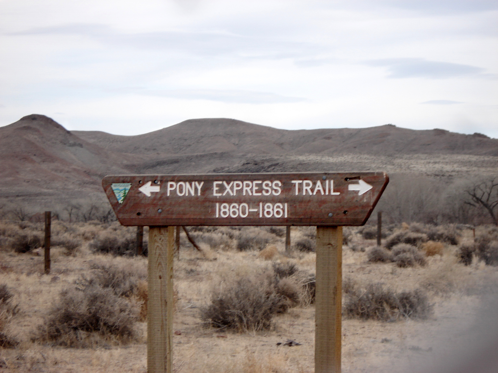 Sign on Fort Churchill and Sand Springs Toll Road West of Fort Churchill State Historic Park